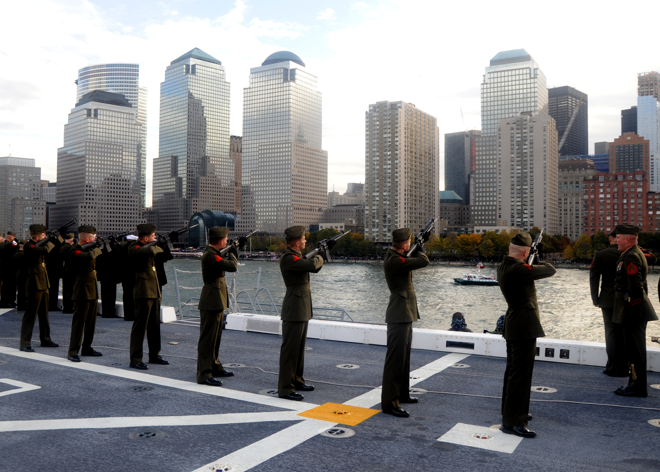 NEW YORK (Nov. 2, 2009) Marines assigned to Special Purpose Marine Air-Ground Task Force 26, fire a 3-volley salute as the amphibious transport dock ship Pre-commissioning Unit (PCU) New York (LPD 21) passes Ground Zero. The ship has 7.5 tons of World Trade Center steel in her bow and will be commissioned Nov. 7 in New York City. (U.S. Navy photo by Mass Communication Specialist 1st class Corey Lewis/Released)